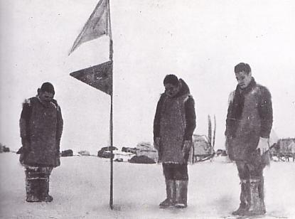 Yamato Snowfield